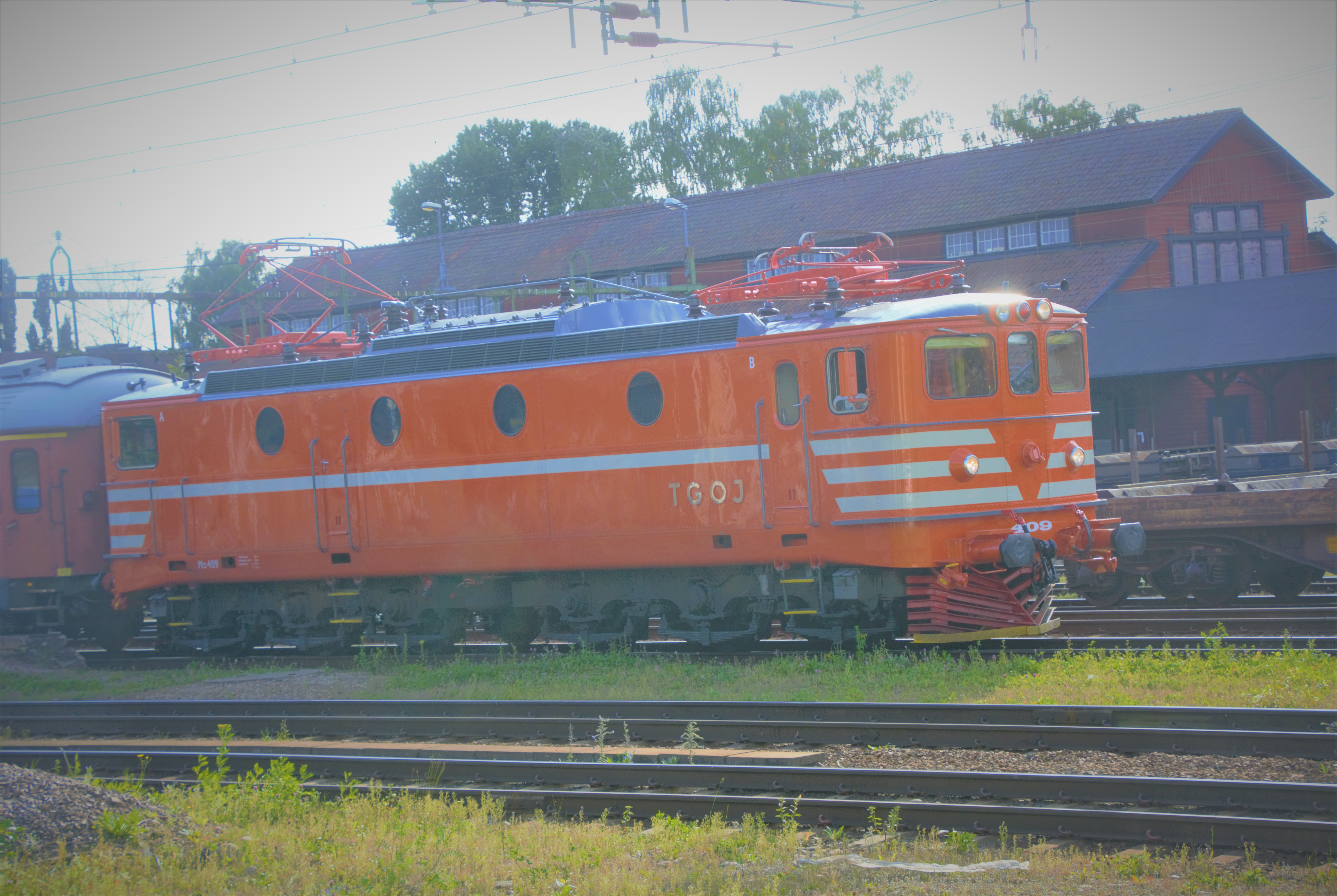 ASEA locomotive TGOJ 409. Manufactured 1958 as No 1459 by ASEA. Used by TGOJ 1958-2010, by Green Cargo 2010-2014. Since 2014 owned by SKÅJ.